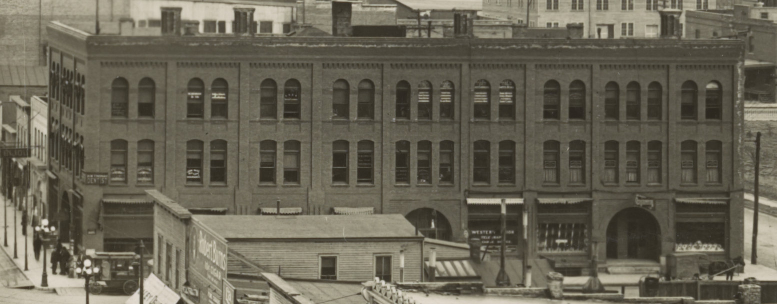 The Western Union Building in Aberdeen, South Dakota, listed on the National Register of Historic Places. Cropped from full source image.